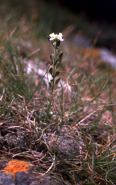 Hoary Whitlow-grass (Draba incana) Not the rarest, nor the most spectacular, of the specialities of the Keen of Hamar NNR, but one of the hardest to find. It only grows near the top, but not at the top, of low grassy mounds on the reserve.